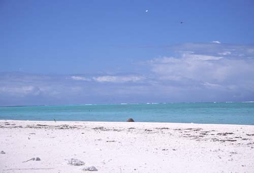 These shallow reef flats are found on north Motu Tavae, Maupihaa (Mopelia) Atoll, Society Islands, French Polynesia Original field notes: You can see the outer atoll reef in the distance. Excellent sandy beaches are ideal for green turtle nesting. Even though Mopelia is one of the most remote islands in the Society Group, it is still visited by islanders from nearby atolls to harvest turtles.